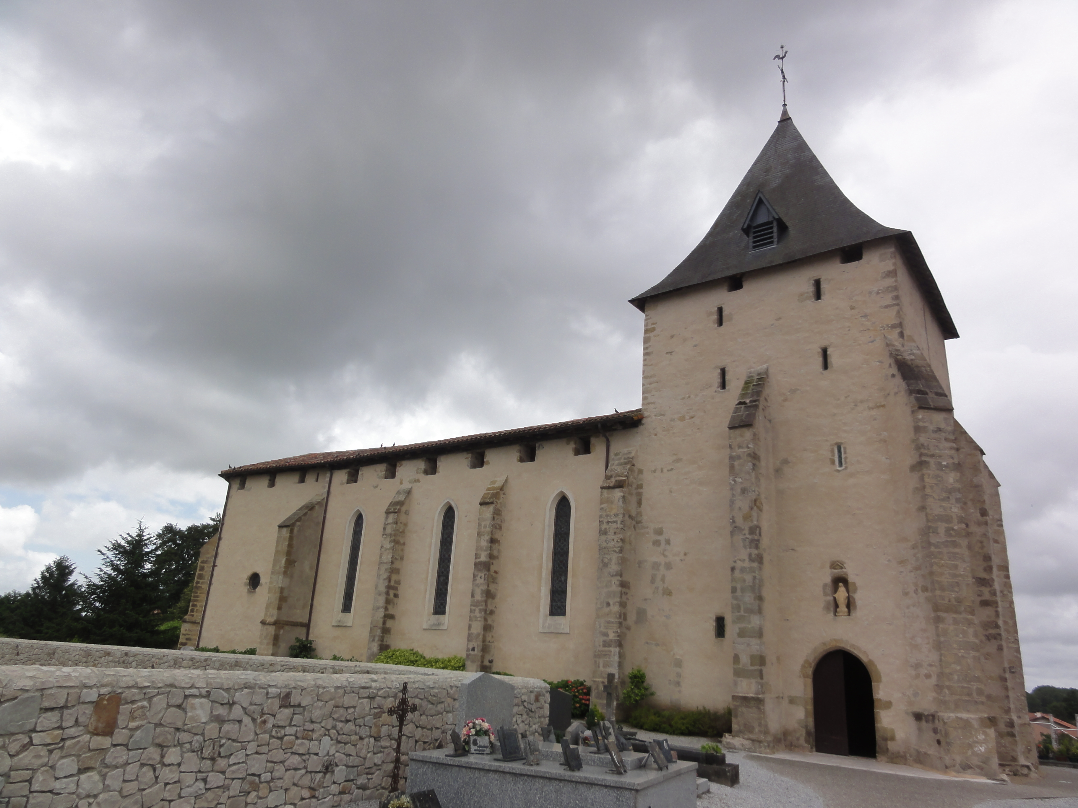 Saubion (Landes) église, vue latérale